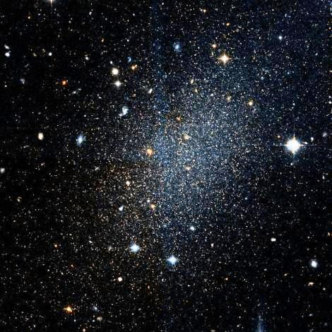 UGCA 133 (or DDO 44) - Hubble Space Telescope - Hubble Legacy Archive